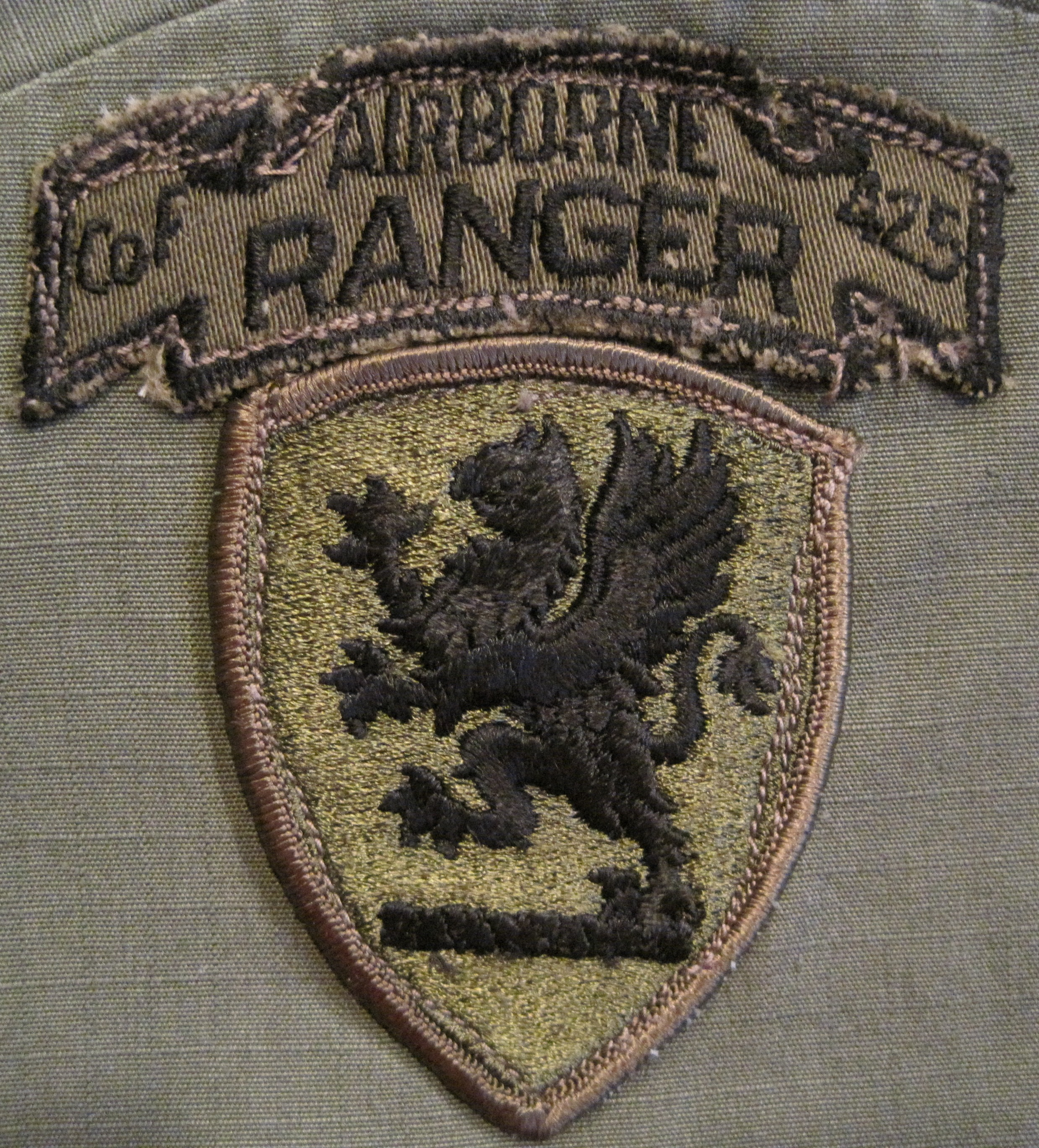 Michigan National Guard griffin patch and Ranger scroll